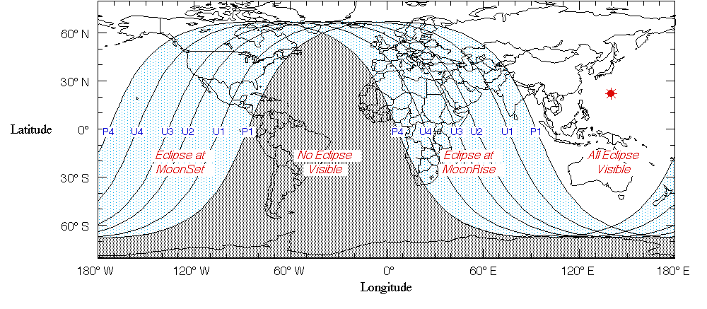 Visibility of the 2011-12-10 lunar eclipse